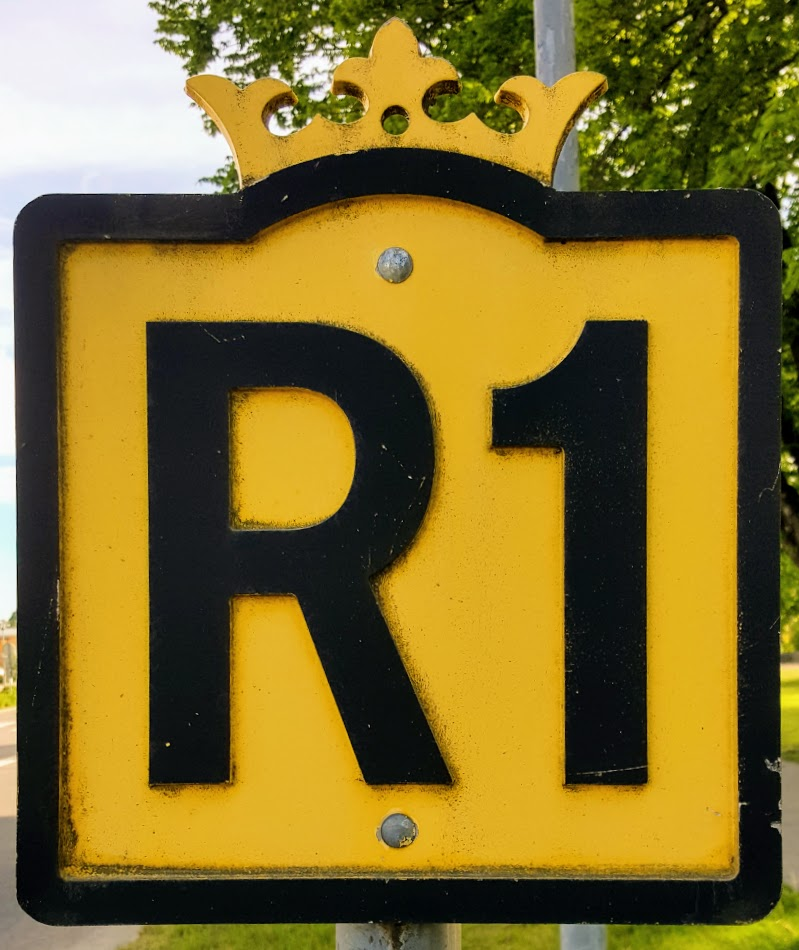 Road sign for the scenic route Riksettan, formerly part of the national road Riksväg 1.